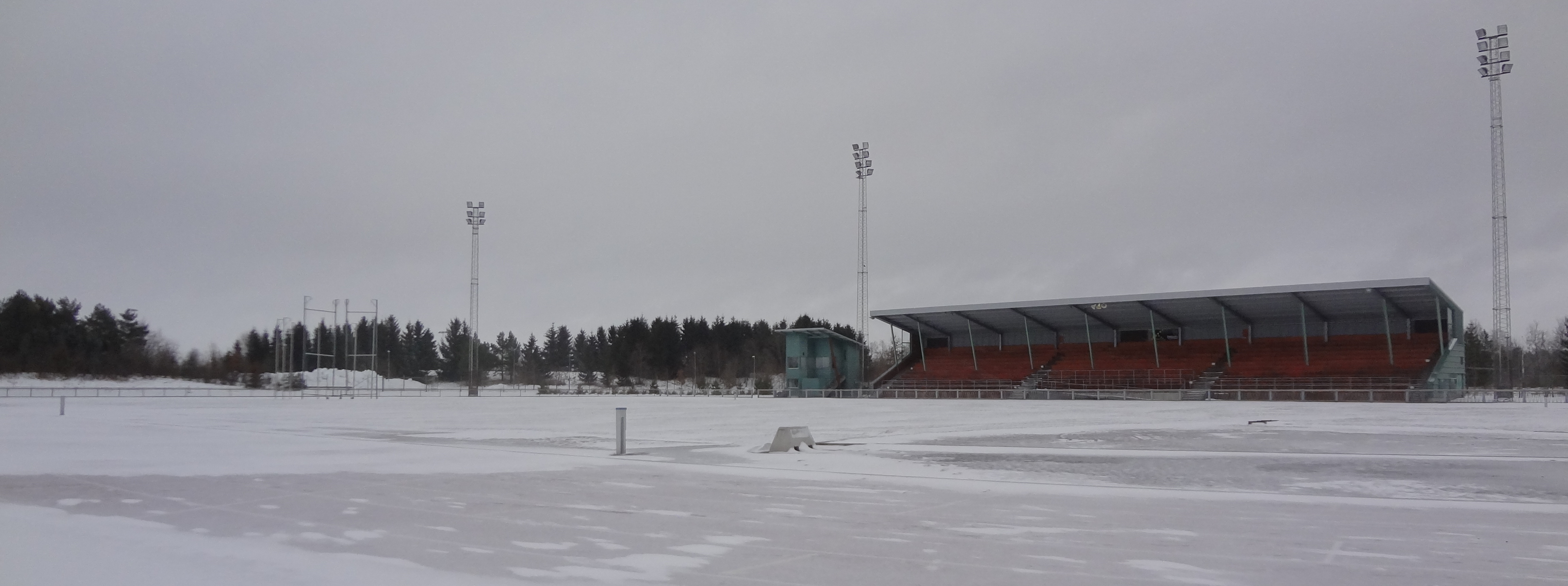 Ekängen, atletichs stadium in Eskilstuna, Sweden.